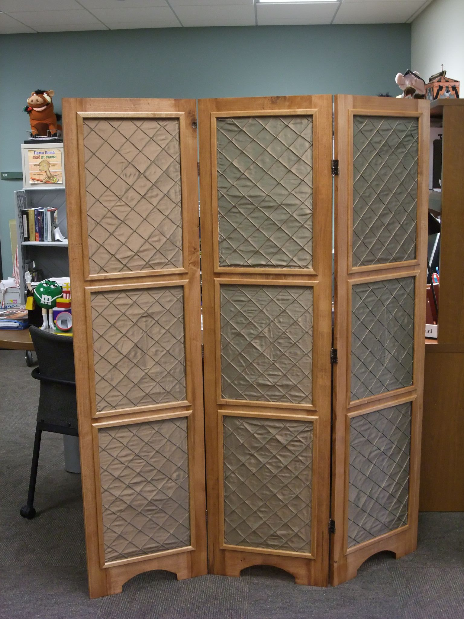 This is what we call "the illusion of privacy."